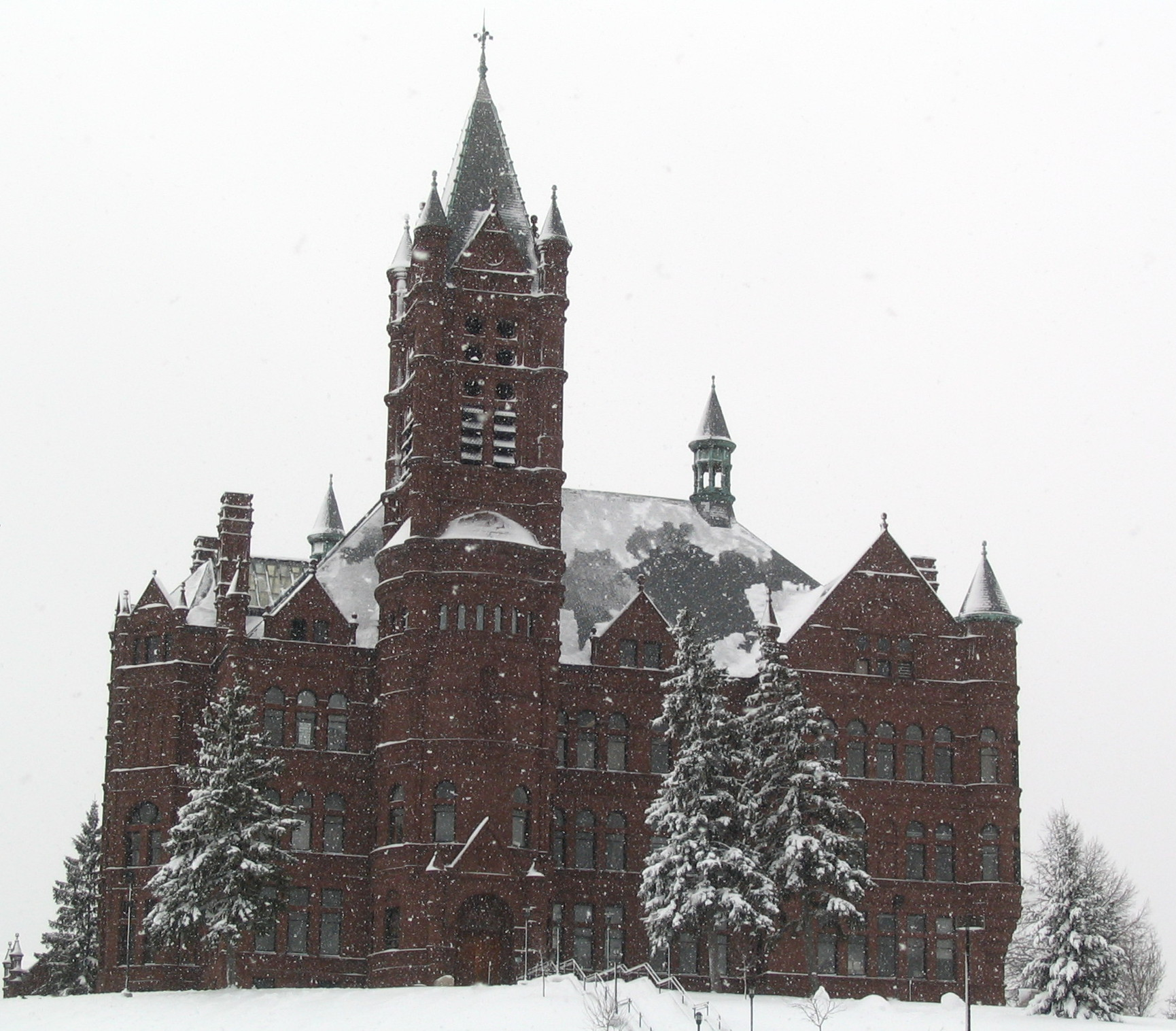 Crouse College, Syracuse University during a February 2008 snow storm.